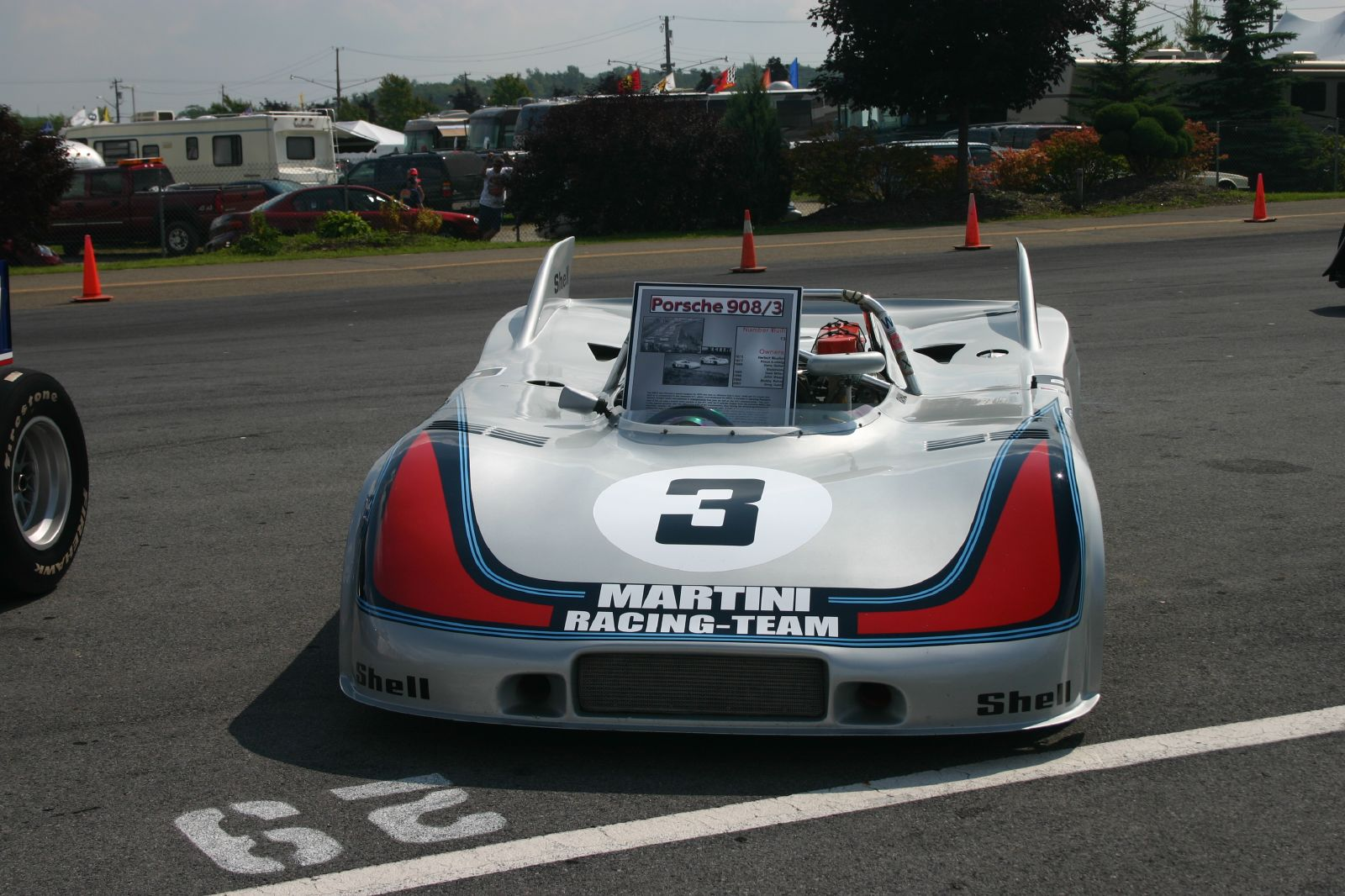 The 908/3 was Porsche's secret weapon for 1970 and was so effective that it never really got its proper due. Built as a complement to the awesome 917, which overshadowed the 908/3, it assisted in securing Porsche's second straight world manufacturer's championship that year, as well as the 1971 championship. The concept of the car was a scaled down version of the 917, whith the 8 cylinder engin from the previous 908/2, and a very special gearbox with the differential AFT of the transmission, thus having the driver/engine/transaxle assembly between the two axle assemblies (a true mid-engine car). A total of 13 examples were build to be utilized for only two races in 1970: The Targa Florio and the 1000km at the Nurburgring, winning both handily. A repeat appearance at the same two races in 1971, winning the Nurburgring, and the 908/3 went into retirement. Four of the cars were sold to privateers who campaigned the cars competitively for an unheard of additional 9 years. Perhaps the greatest testimony for a 908/3 turbo was in 1982 when one was leading the FIA Norisring race ahead of the Porsche's Werkes Team 956's ... a 12 year old car leading the state of the art 1982 LeMans winner for the initial 1/4 of the race! This car, Chassis 006 was sold to Dennesburger Racing in 1975. Driven by Herbert Mueller, the car finished 3rd at Mugello, 9th at Dijon, DNF at Monza and Spa, and was 9th at the Osterreichring. Sold then to Kremer Racing it was campaigned by Klaus Ludwig to the 1977 German sports car championship. Kremer later restored the car back to its 1971 configuration and sold it to collector Hans Deiter Blatsheim of Cologne in 1980. Dale Miller purchased the car in 1995 and sold it to John Wean in 1996. Wean campaigned the car for two years in selected vintage events and traded it back to Miller, who sold it to a former Indy 500 winner and 3-time CART champion, Bobby Rahal. Rahal ran the car for one season and sold it on to its current owner Greg Galdi in early 2003.